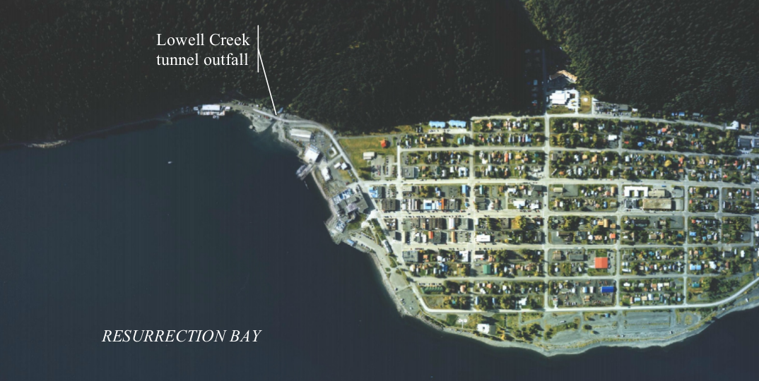 Aerial photo of Seward, Alaska, with the outflow of the Lowell Creek Diversion Tunnel labelled.